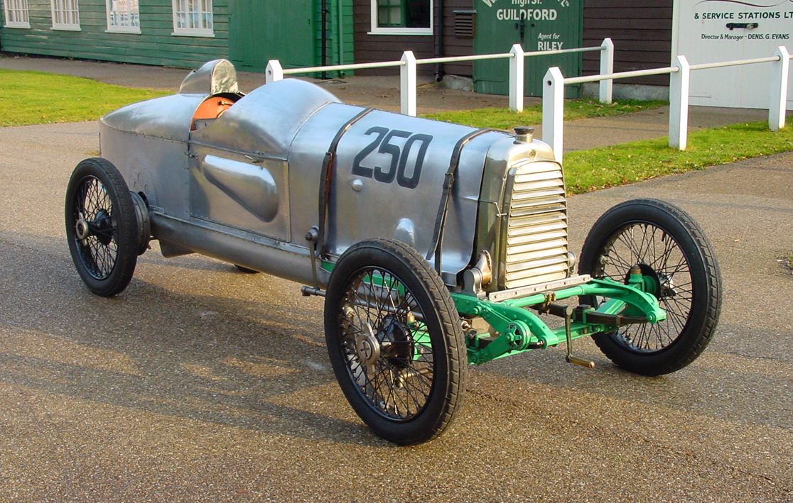 The Razor Blade today at the Grand Prix Cars Exhibit at the Brooklands Motor Museum, London.